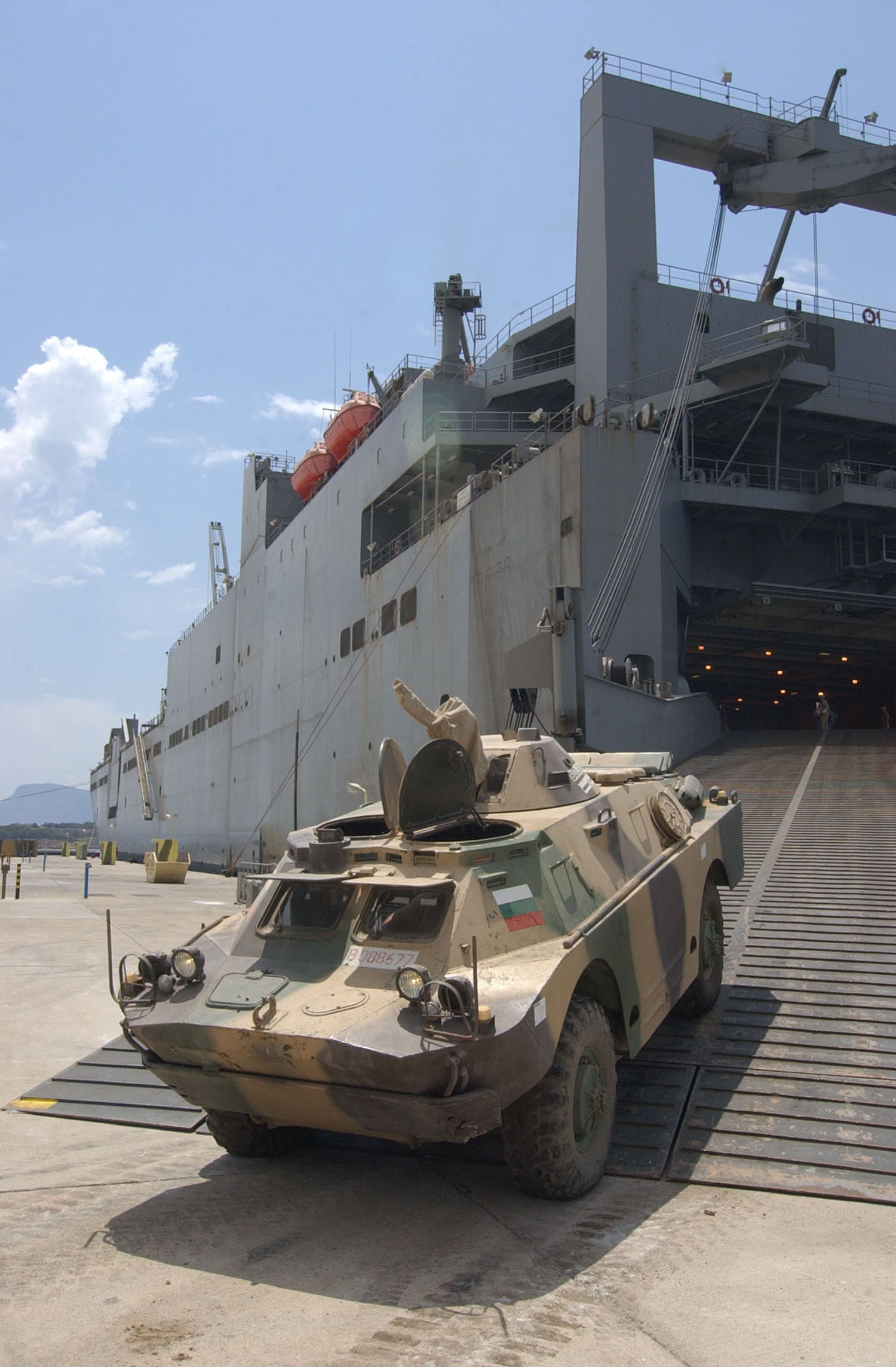 Souda Bay, Crete, Greece - The Military Sealift Command (MSC) large, medium-speed, roll-on/roll-off ship USNS Red Cloud (T-AKR 313), off-loads coalition combat equipment and supplies at Souda Bay, Greece, after returning from deployment in Iraq. The Bulgarian BRDM-2 wheeled and tracked vehicles are being returned to Bulgaria by the MSC after completing a tour of duty in support of Operation Iraqi Freedom (OIF).